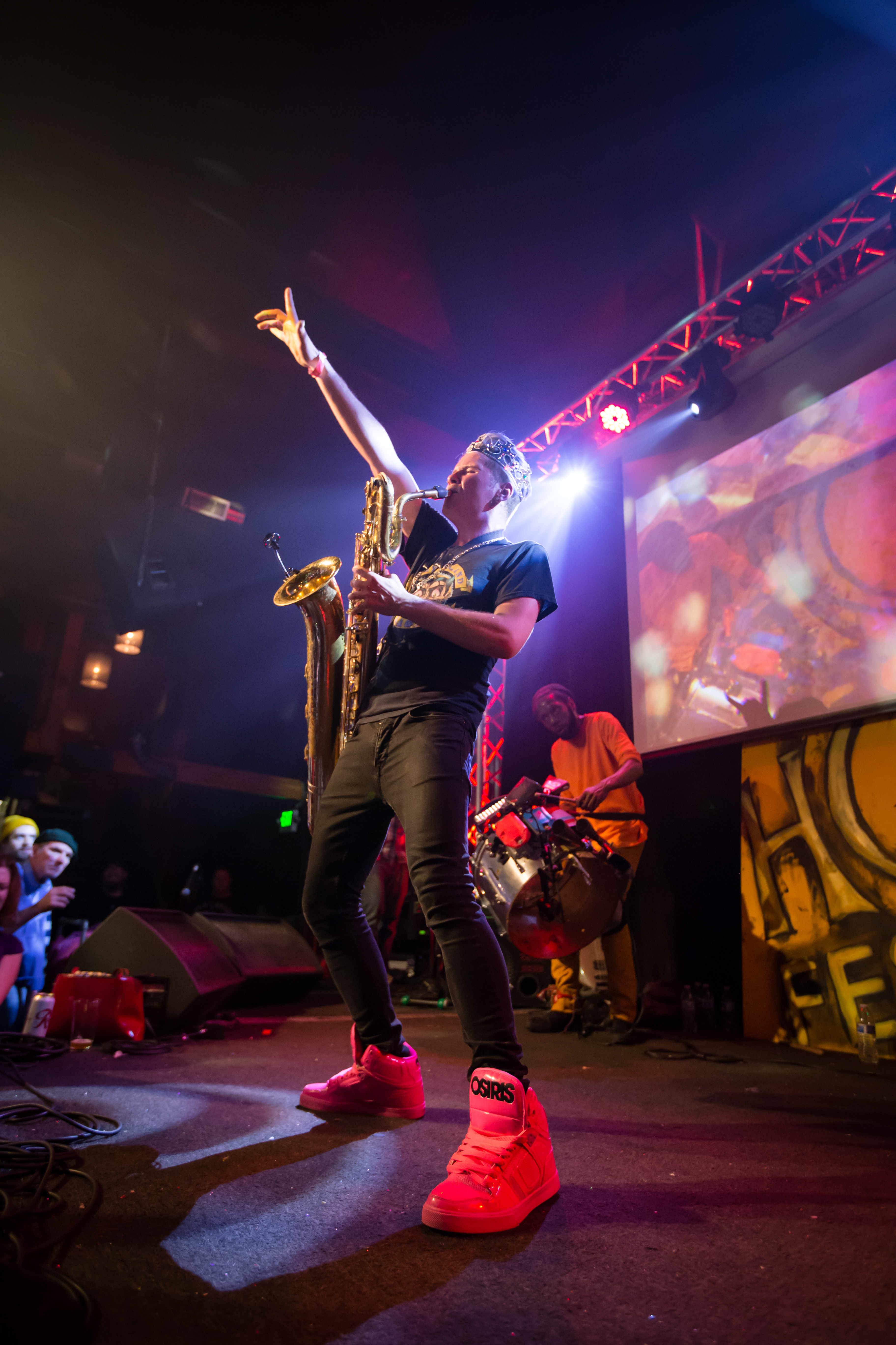 Baritone Saxophone player Leo Pellegrino of Too Many Zooz at HONK! Fest West at Nectar Lounge, Seattle, WA on 2015-01-29